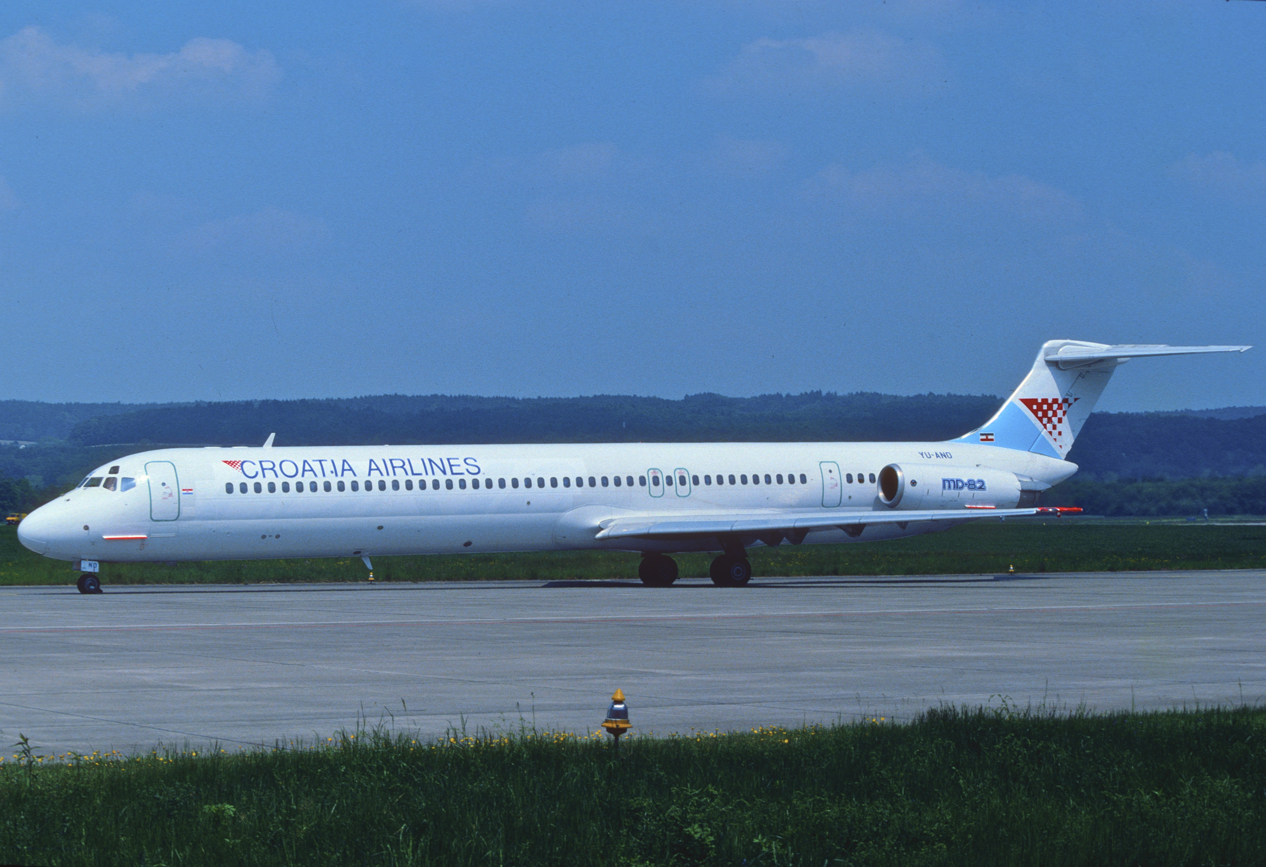 Croatia Airlines MD-82; YU-ANO, June 1991/ DTV